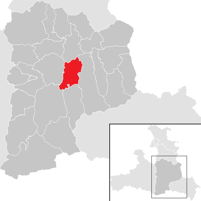 District Sankt Johann im Pongau